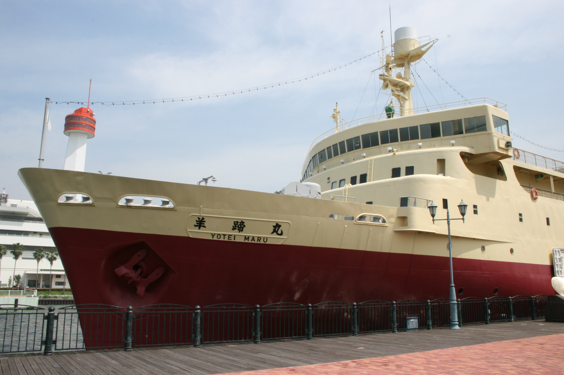 JNR Train ferry YOTEI MARU at Museum of Maritime Science,tokyo japan.